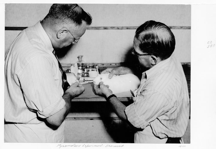 Myxomatosis experiment, Sherwood.